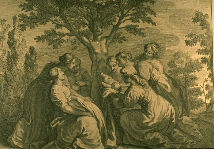 Birth of Adonis. Engraving by Bernard Picart et al. for Ovid's Metamorphoses Book X, 476-519.